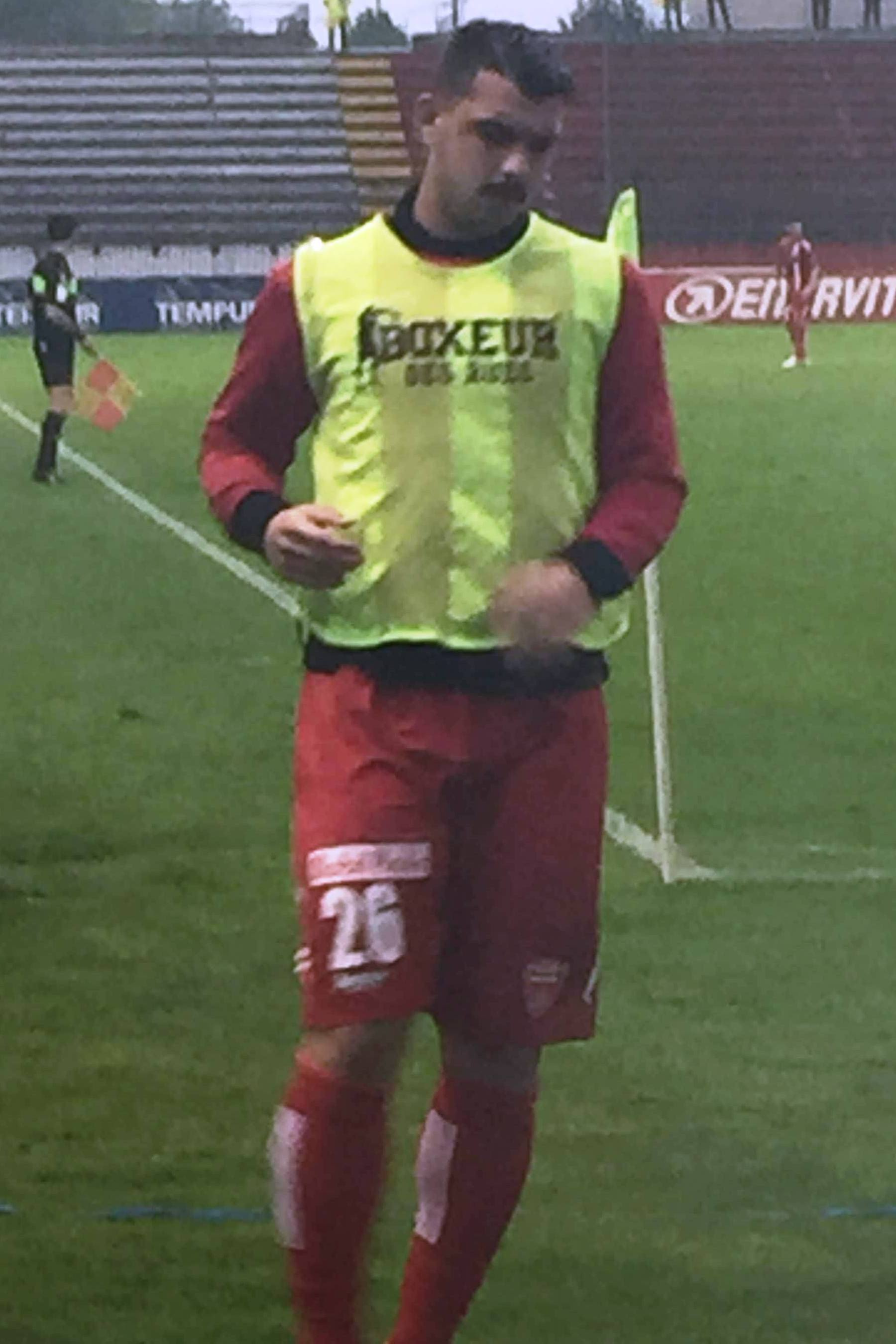 Monza - Viterbese, Coppa Italia Serie C Final 2019